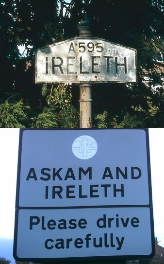 Askam and Ireleth street signs ancient and modern